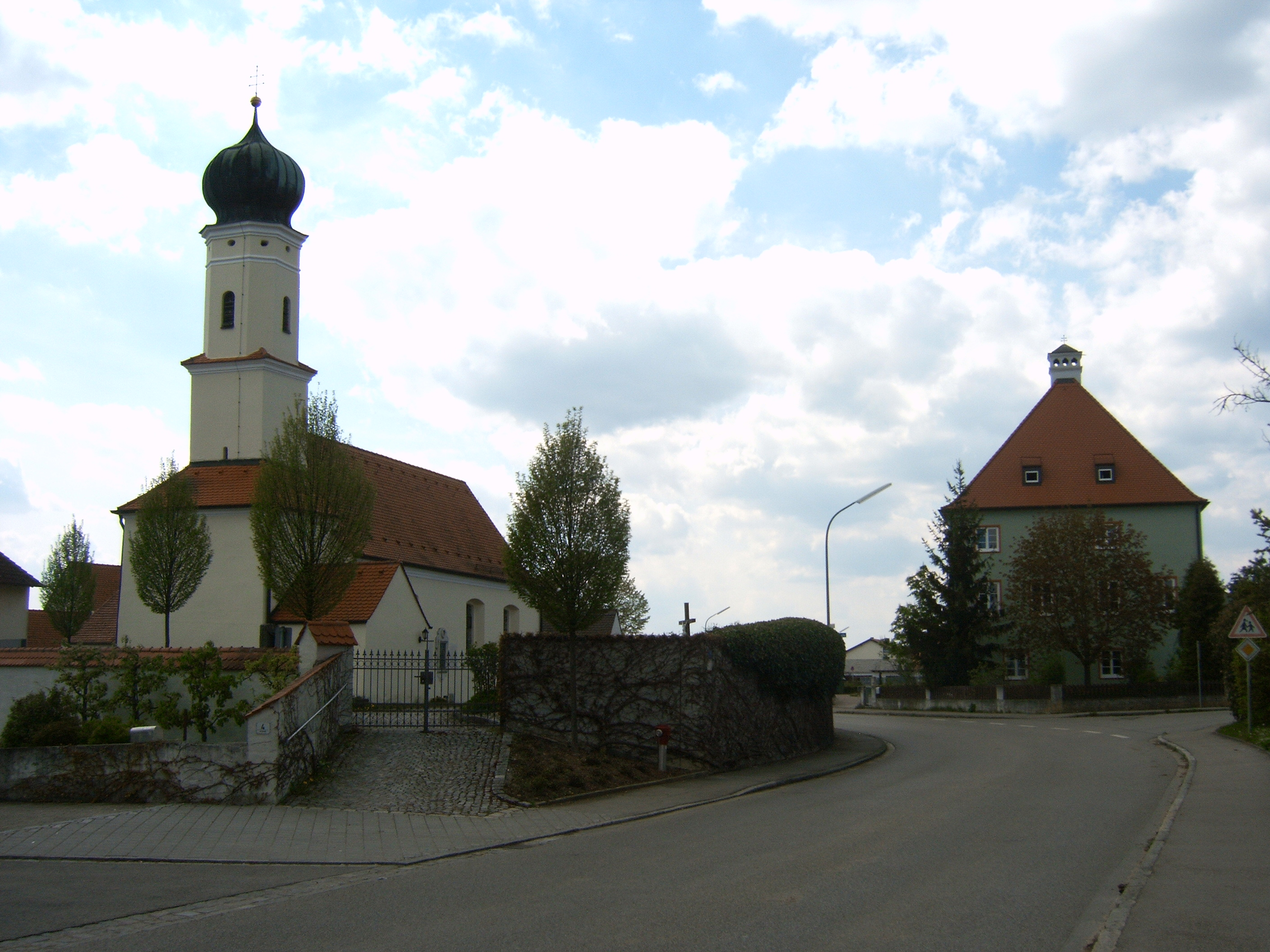 Westerhofen.jpg